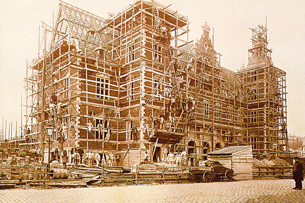 Helsingør Station under Construction in 1891 in Helsingør, Denmark